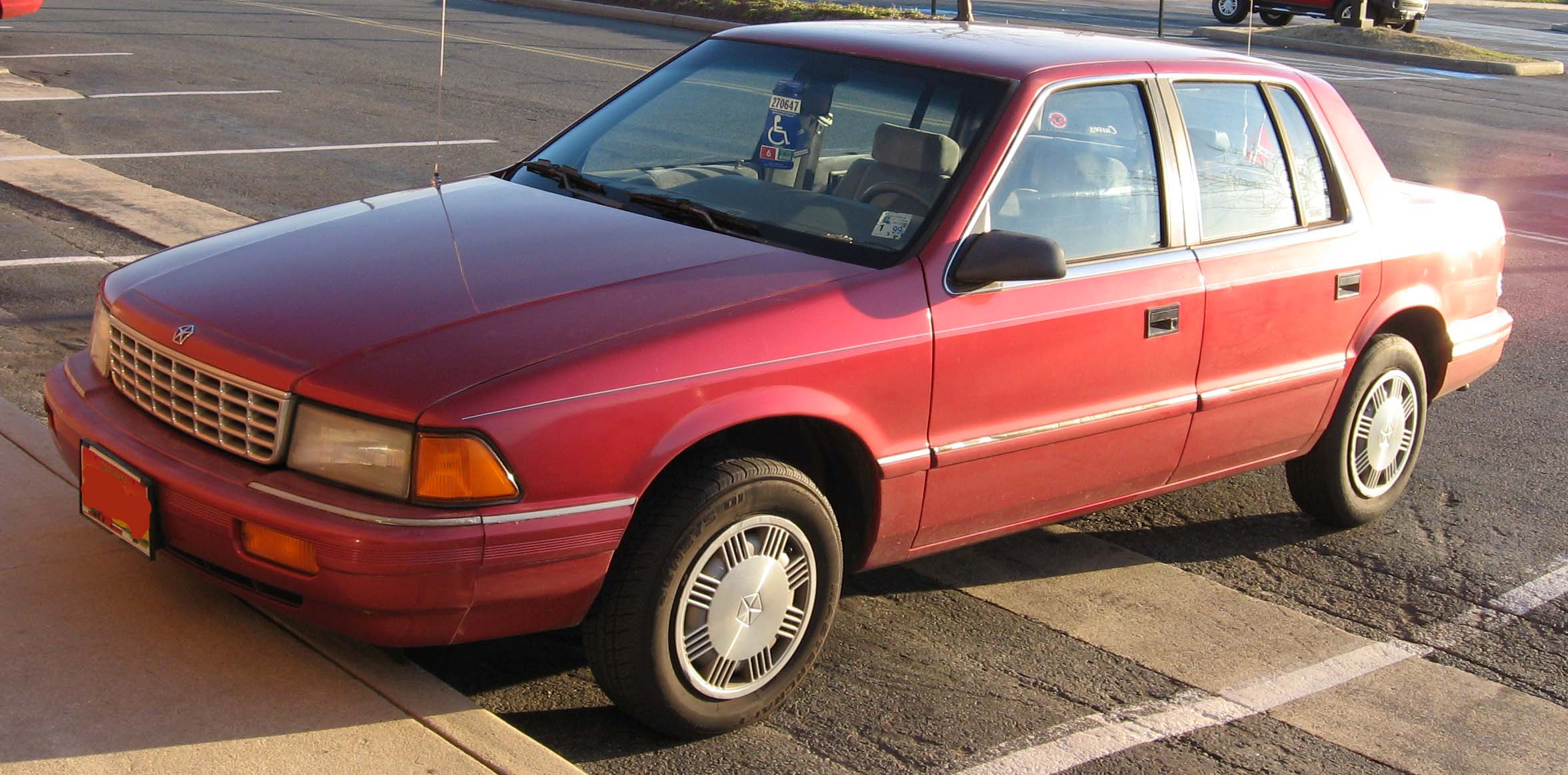 1993-1995 Plymouth Acclaim photographed in USA.